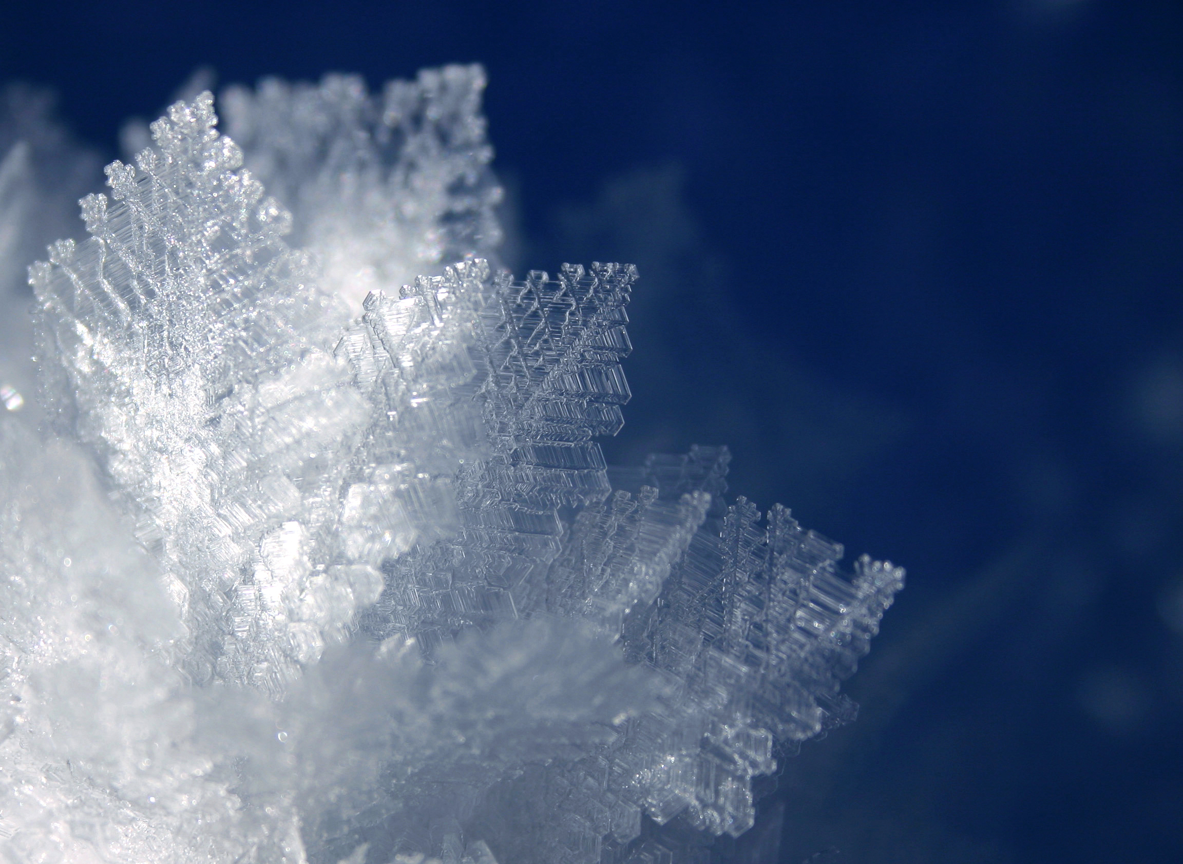 Frost, Lajoux, Jura, France